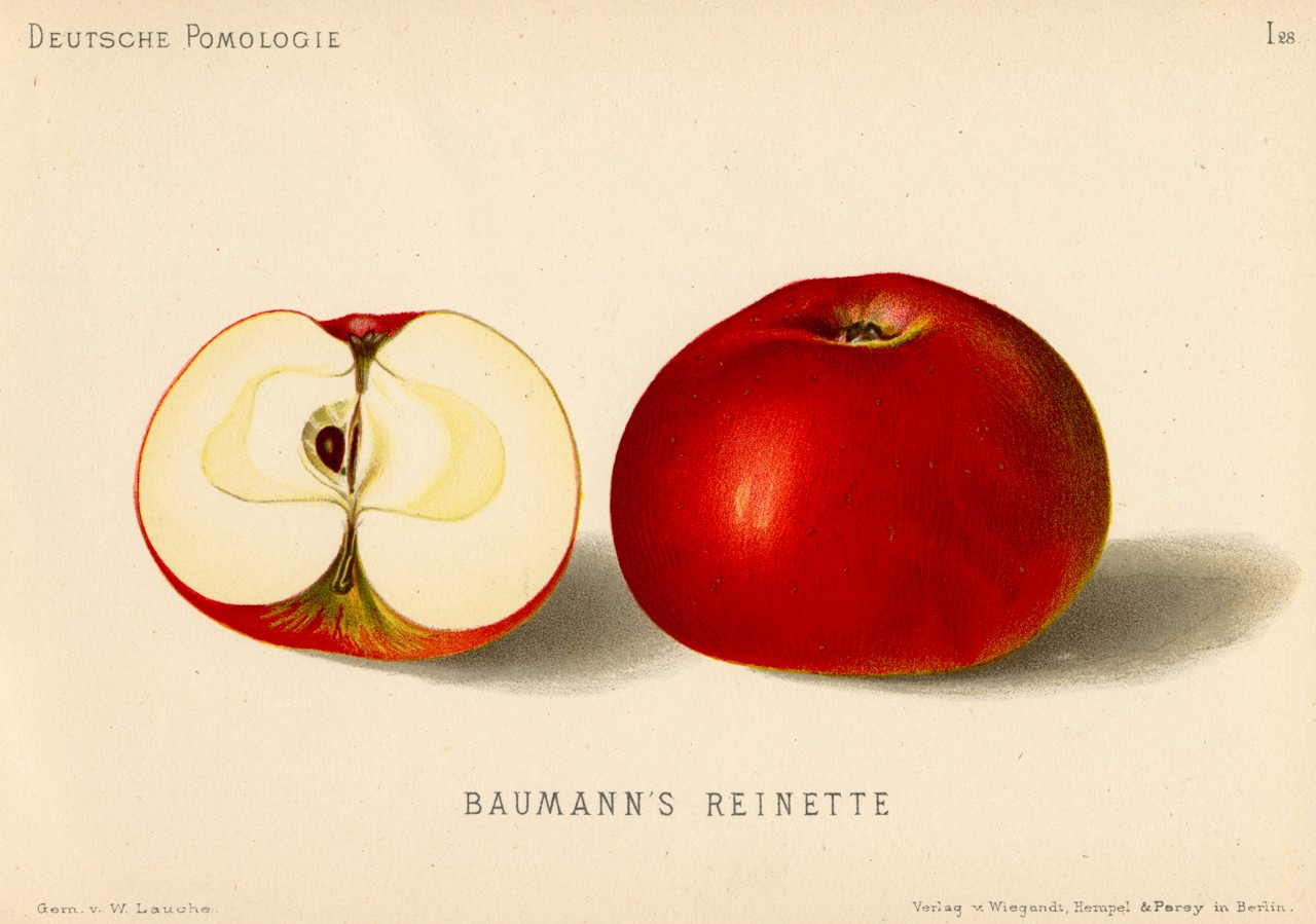 Illustration 28 from Deutsche Pomologie - Aepfel Apple cultivar shown: Baumann's Reinette